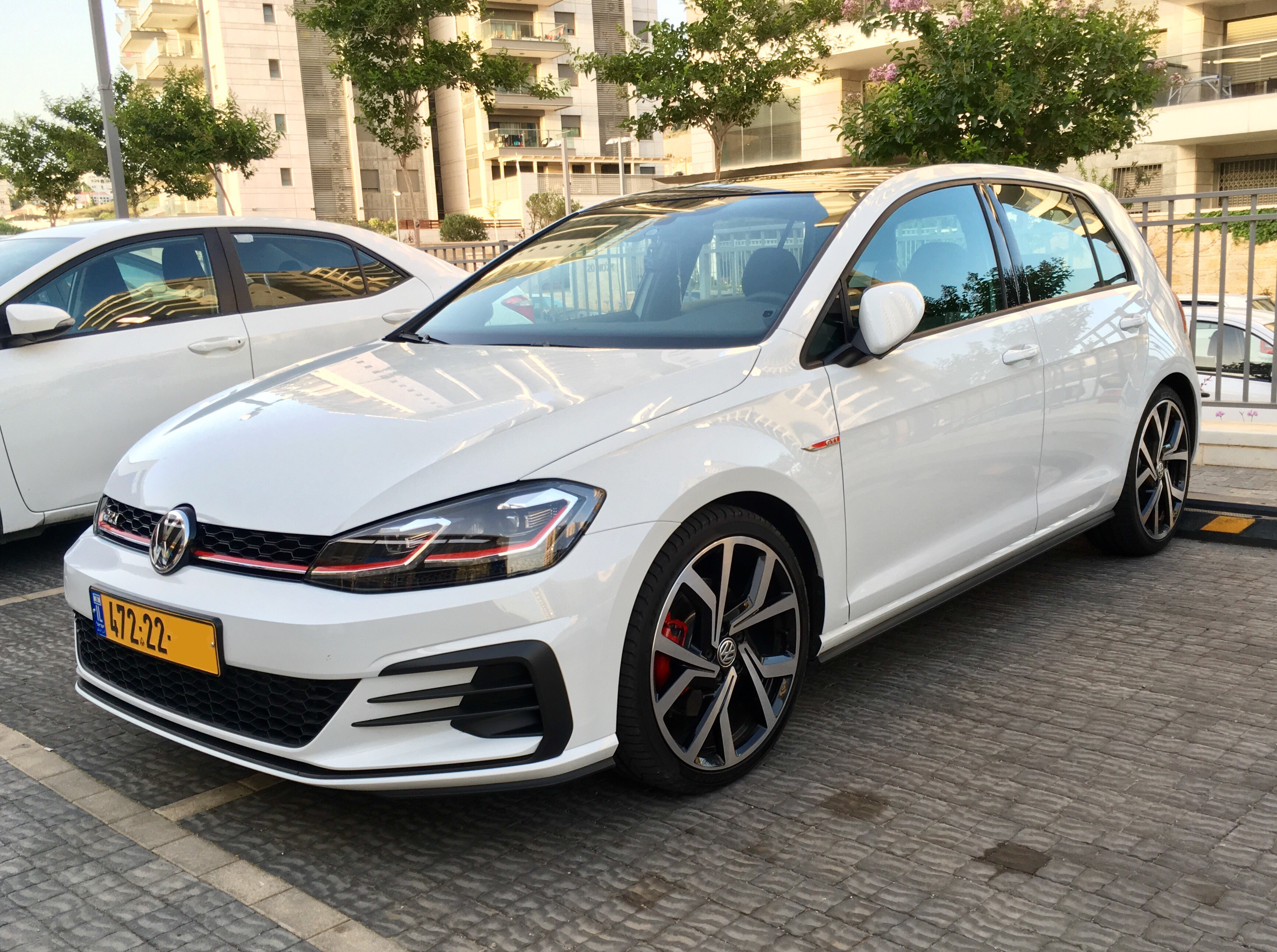 Golf GTI